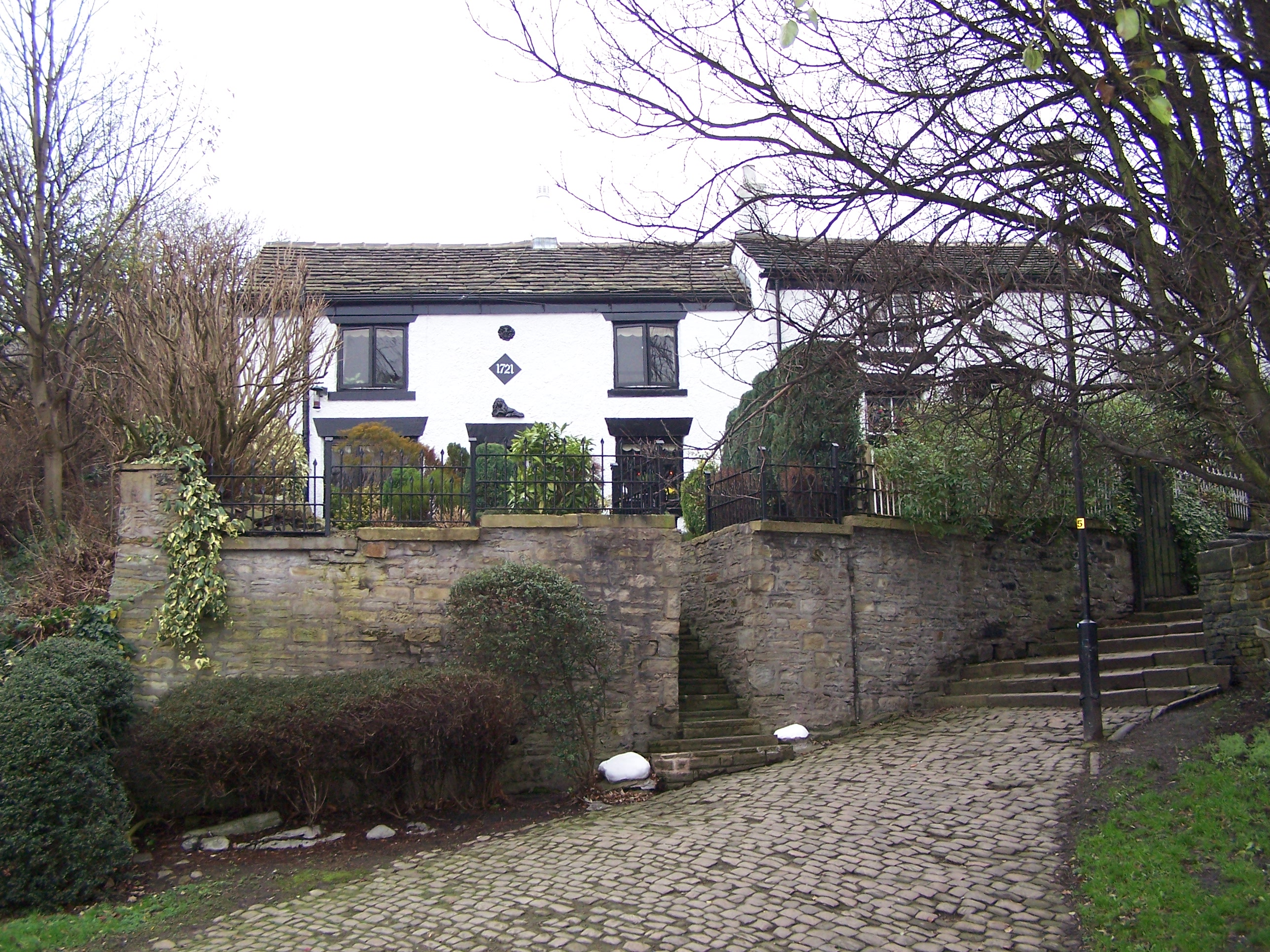 Bohemia weavers' cottages, Stalybridge, Cheshire